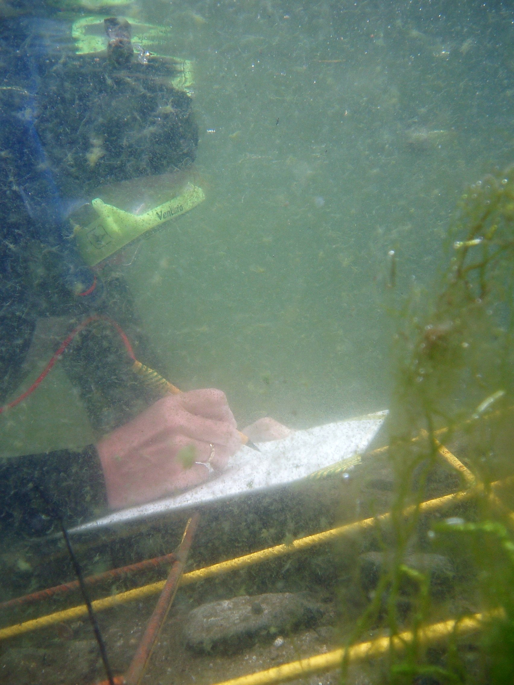 Scale drawing underwater, photo taken at snorkel depth at Stourhead